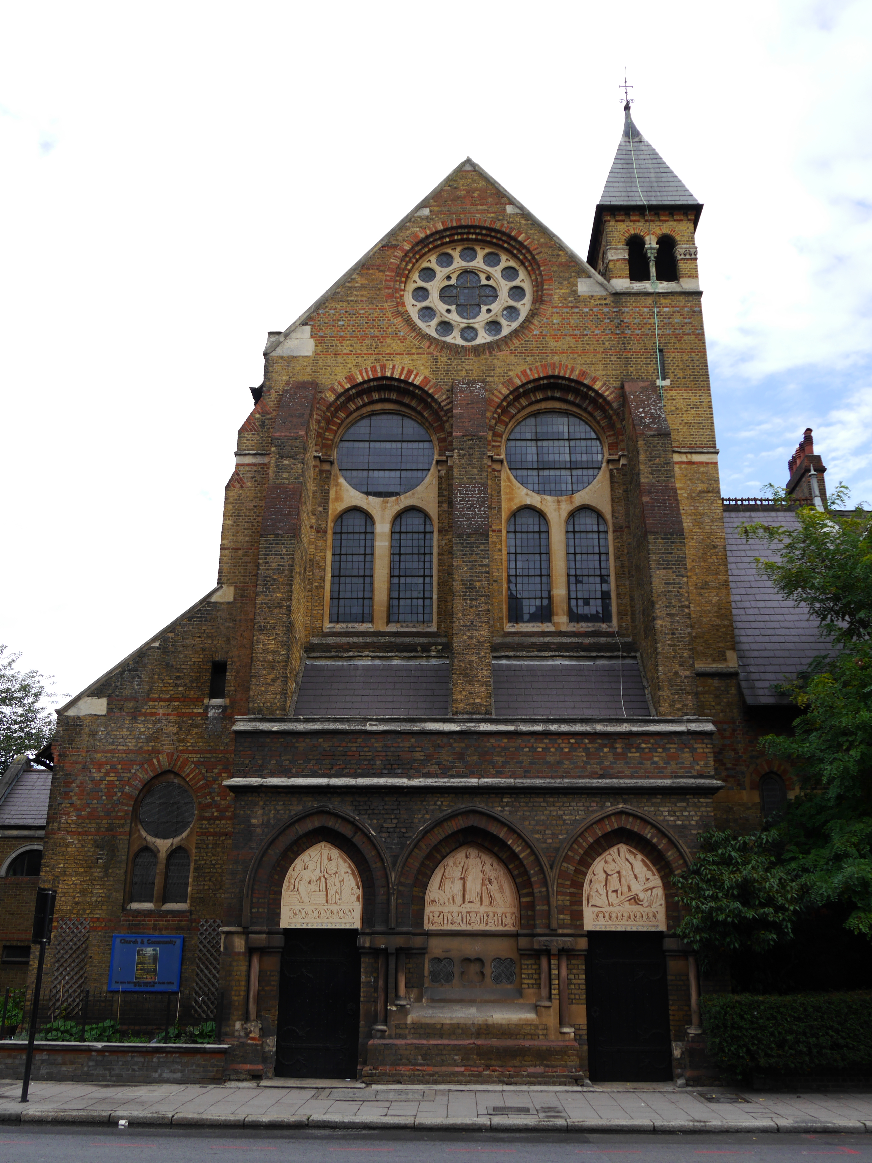 St Peter's church, Vauxhall, October 2014